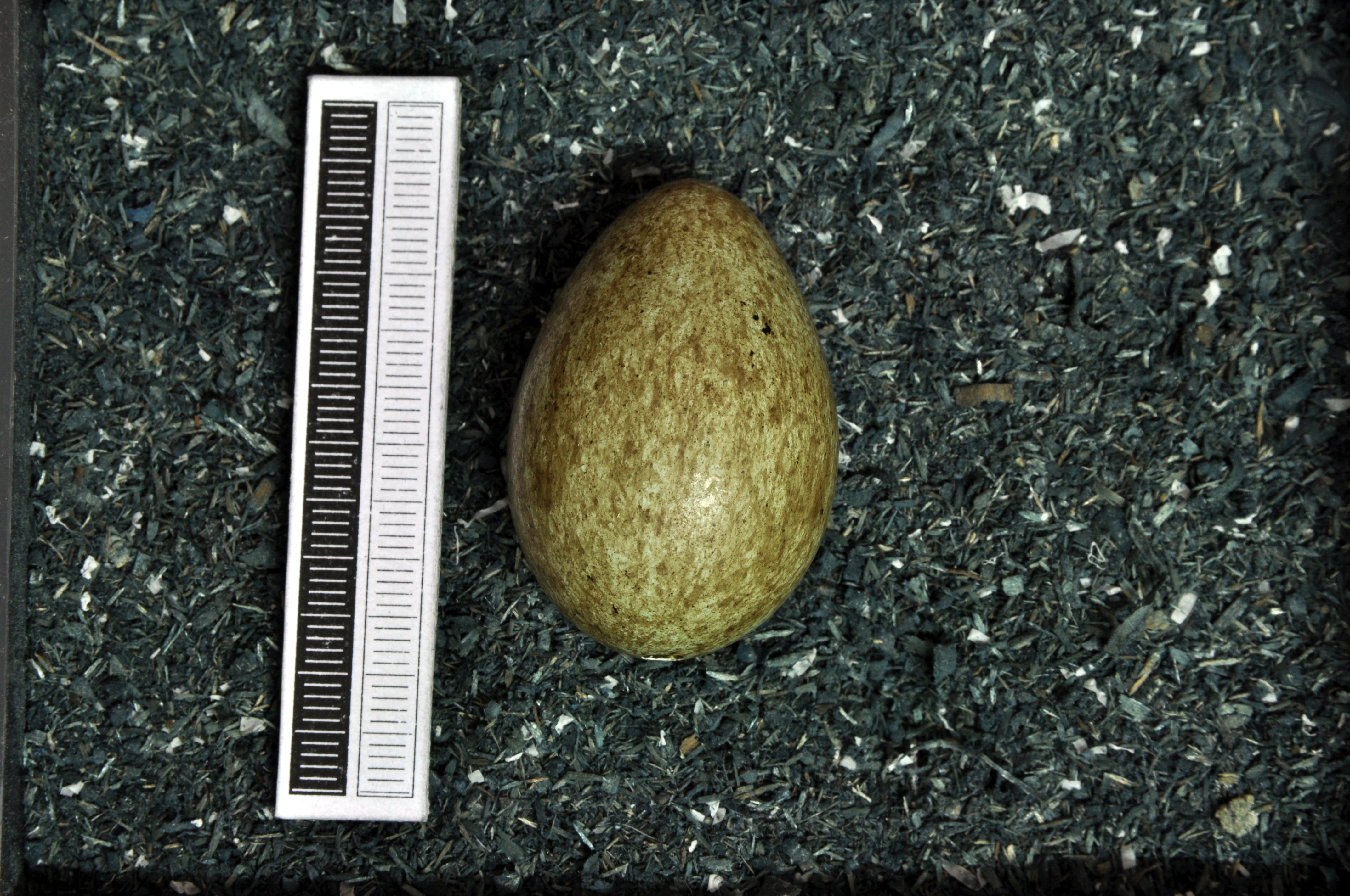 Rook Corvus frugilegus, egg, Coll. Museum Wiesbaden, Origin: Eifel, Germany, 1970, leg. W. Abelmann